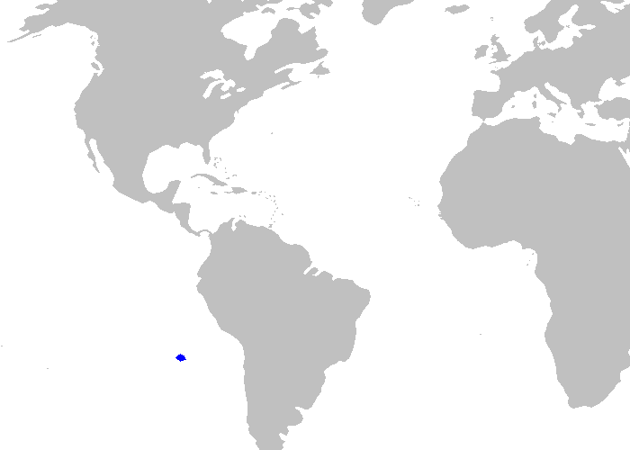 Distribution map for Mollisquama parini